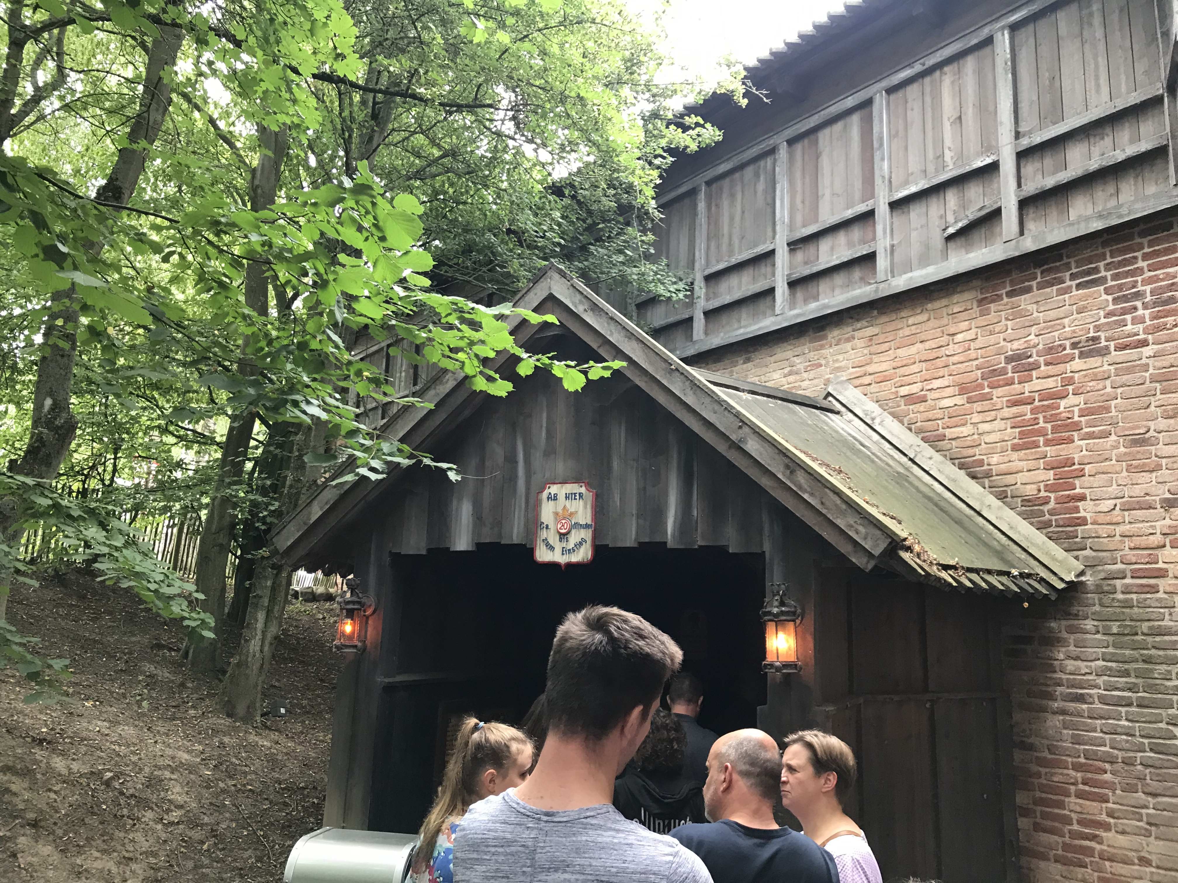 The entrance to the Kremlin buildings at Hansa-Park's Fluch von Novgorod